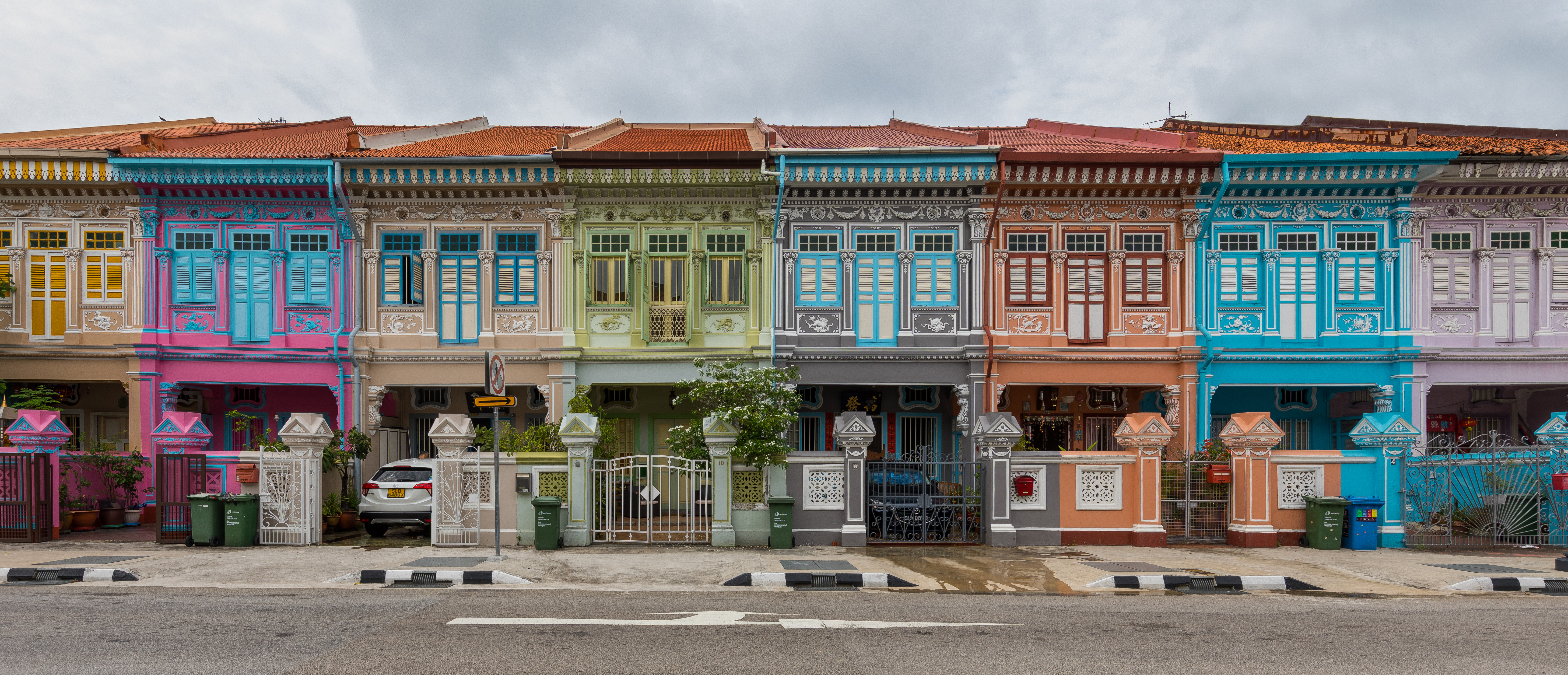 Colorful shophouses in Koon Seng Road, on a Sunday, in Singapore